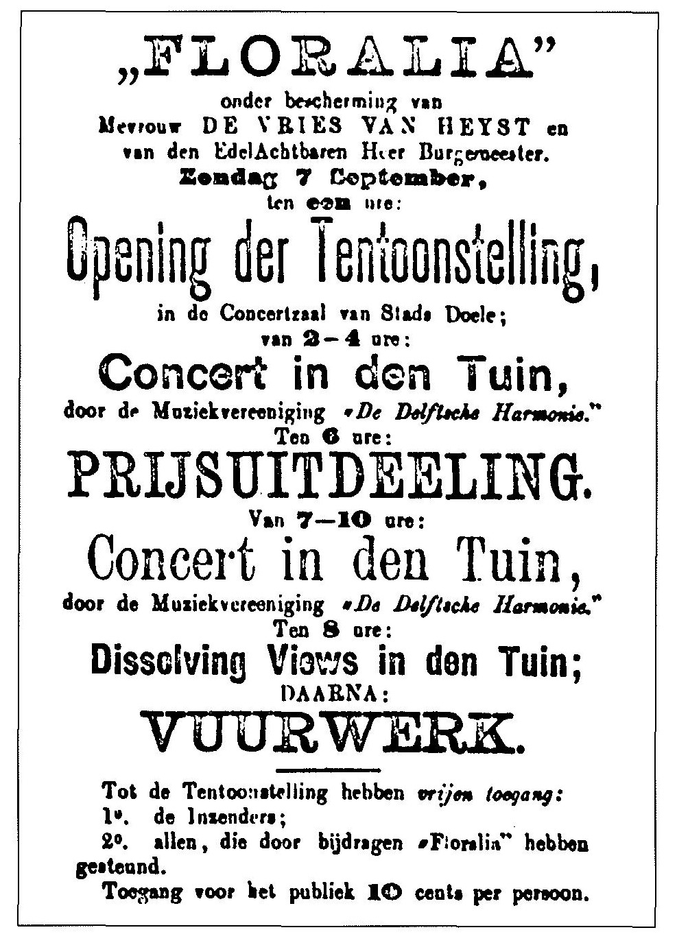 Announcement of the Floralia flower exhibition at Delft, Delftsche Courant 9 September 1879